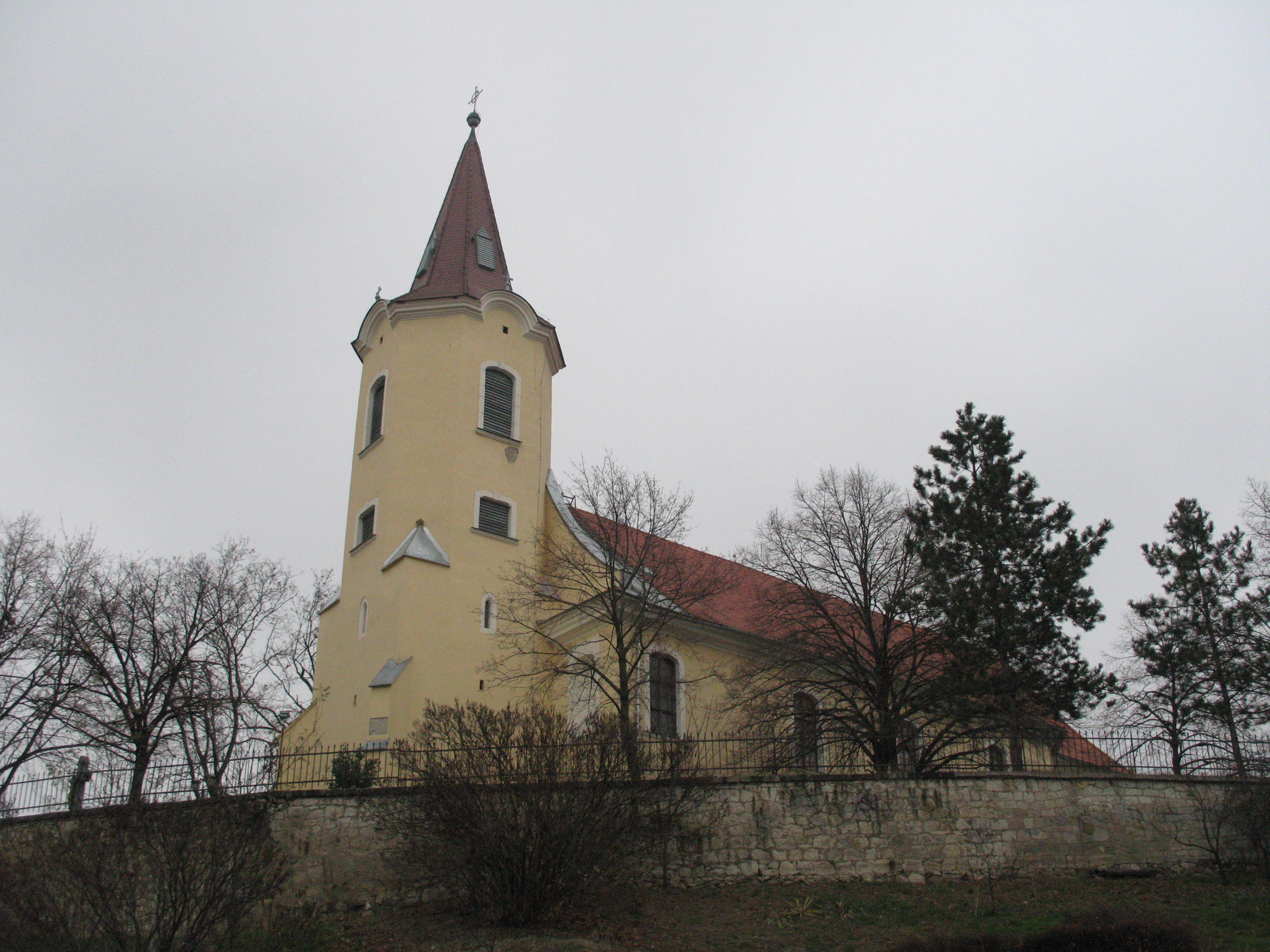 Catholic church, Tarcal, Hungary